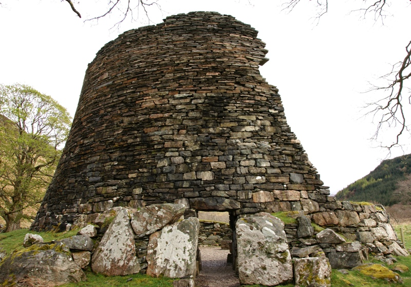 Dun Telve, Glenelg, Highland, Scotland - entrance